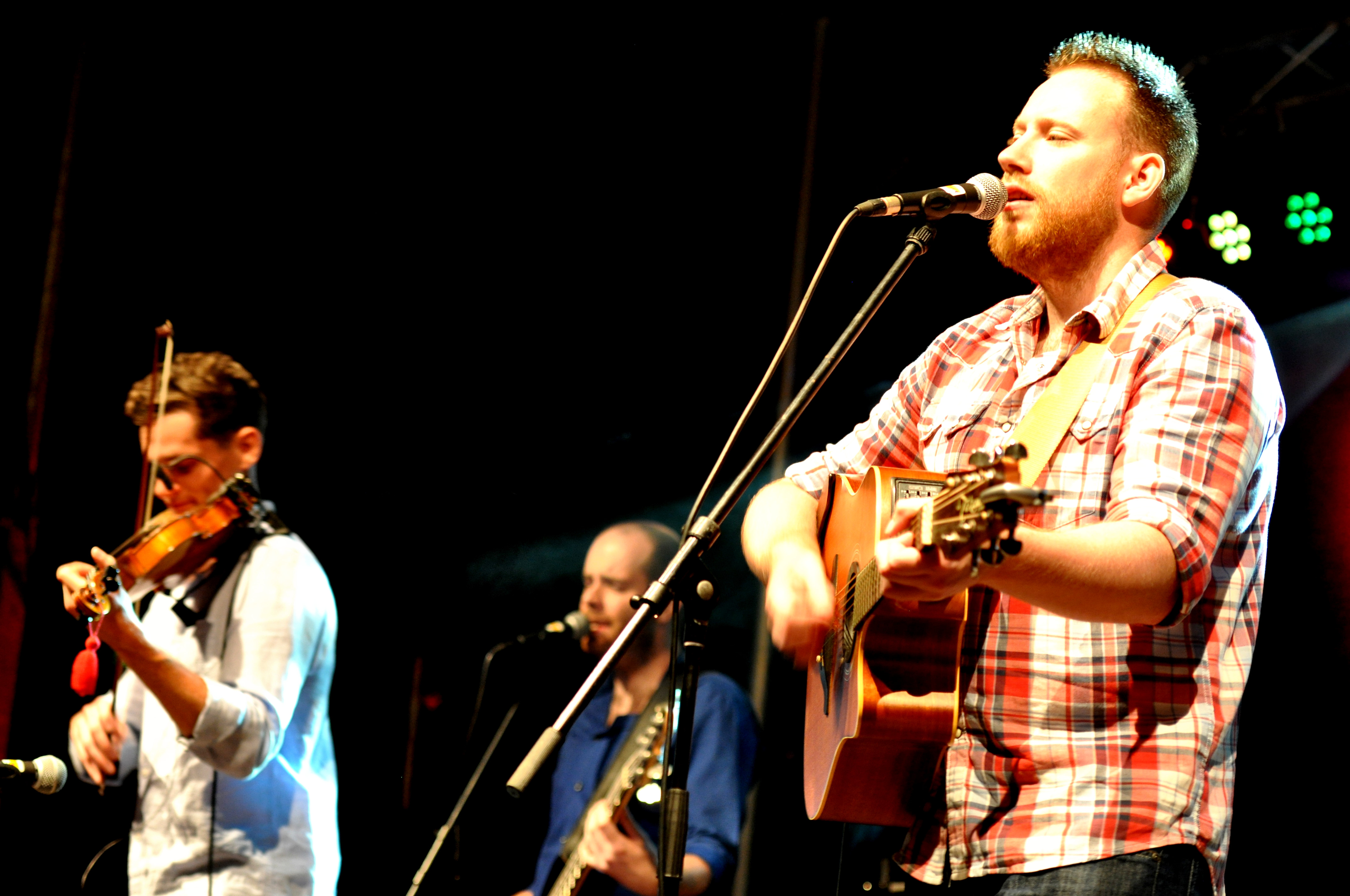 Mànran (SCT/IRL), Folk am Neckar 2015, Mosbach-Neckarelz, Germany Festivalsommer This photo was created with the support of donations to Wikimedia Deutschland in the context of the CPB project "Festival Summer".